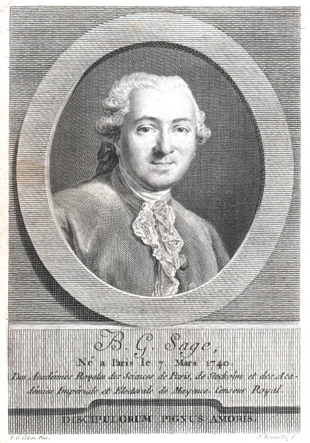 Portrait of Balthazar Georges Sage (1740-1824)